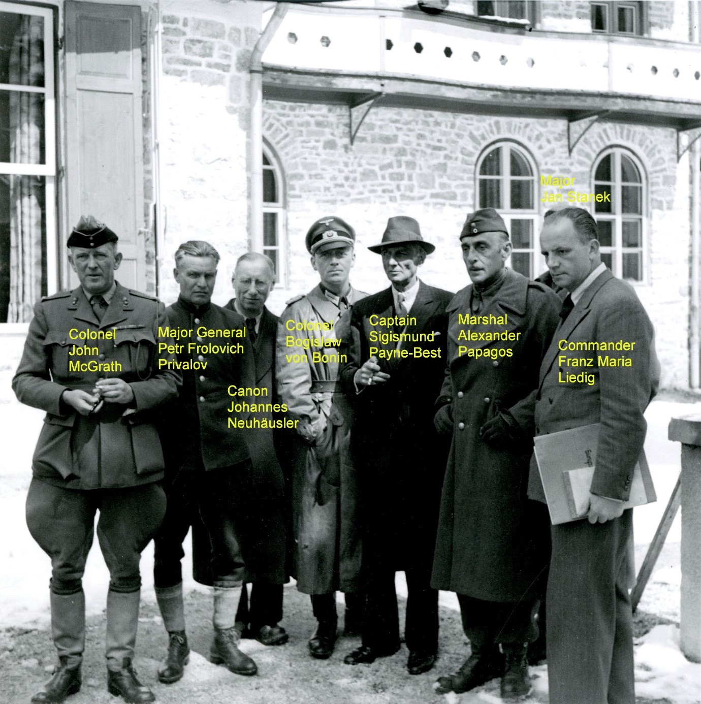 A group of hostages at the Pragser Wildsee Hotel following their rescue by US Forces. Showing left to right: Colonel McGrath; General Privalov; Canon Neuhausler (Chancellor of Munich); Colonel Von Bunin (ex-German Staff); Captain S Payne Best (captured in Holland); General Alexander Paphoos (Greek); Major Stanek (Czech) and Captain Liedig (German Navy)